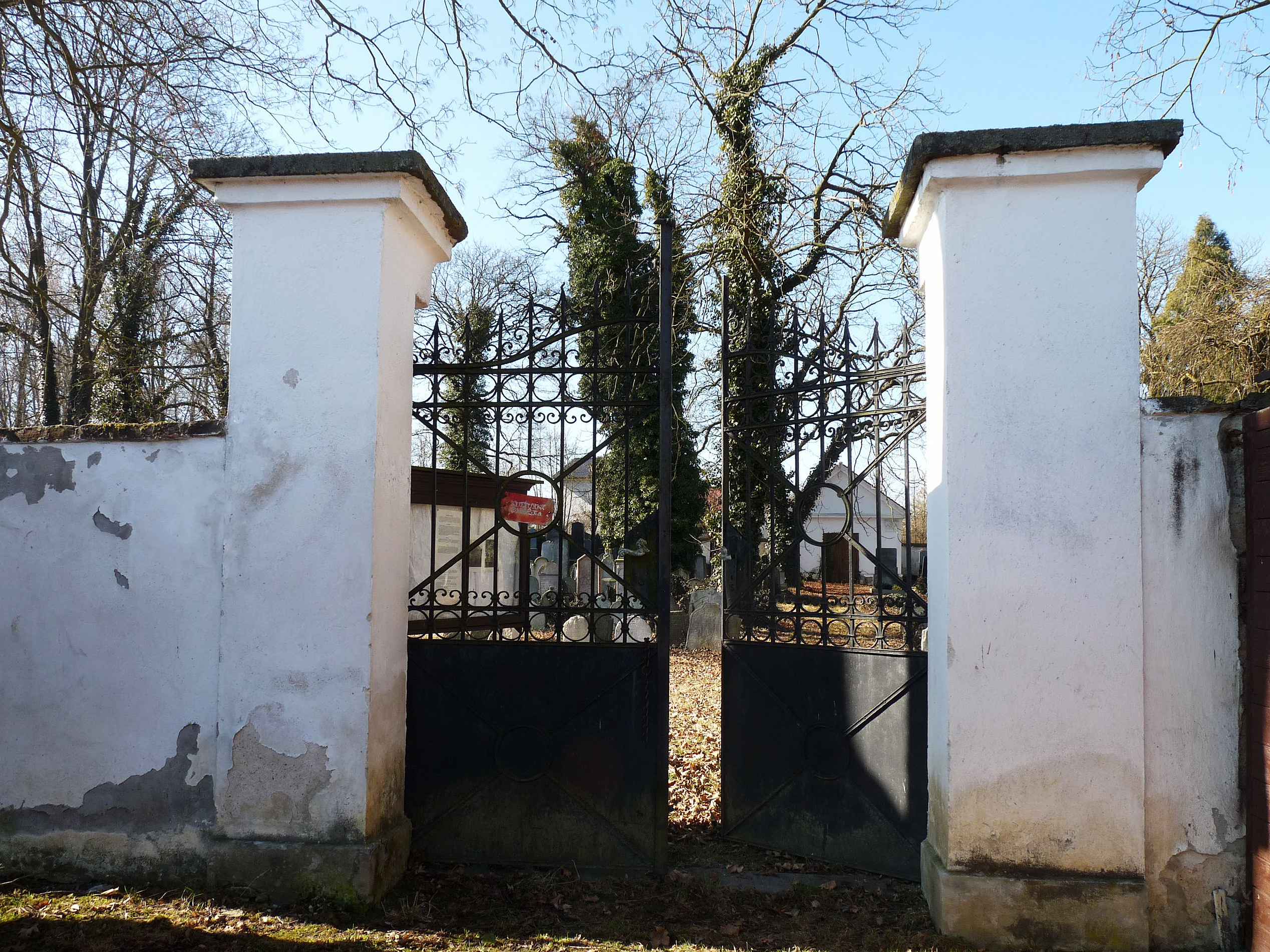 Jewish cemetery at the town of Strakonice, Klatovy District, Czech Republic - entrance